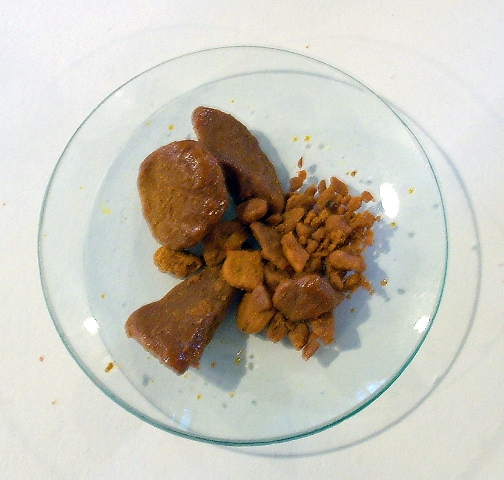 FeCl3